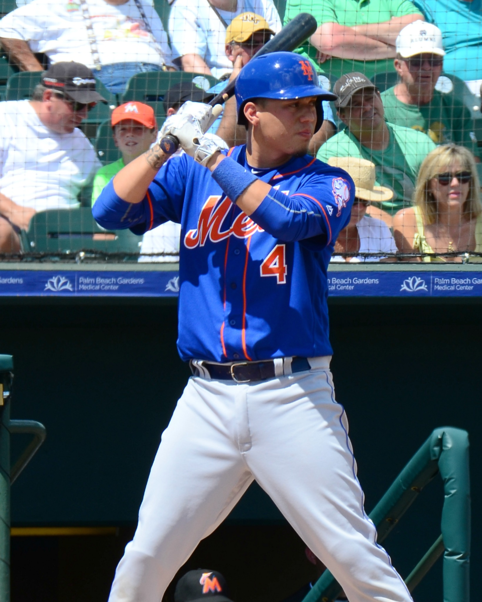 Wilmer Flores of the New York Mets takes an at-bat, March 17, 2016.